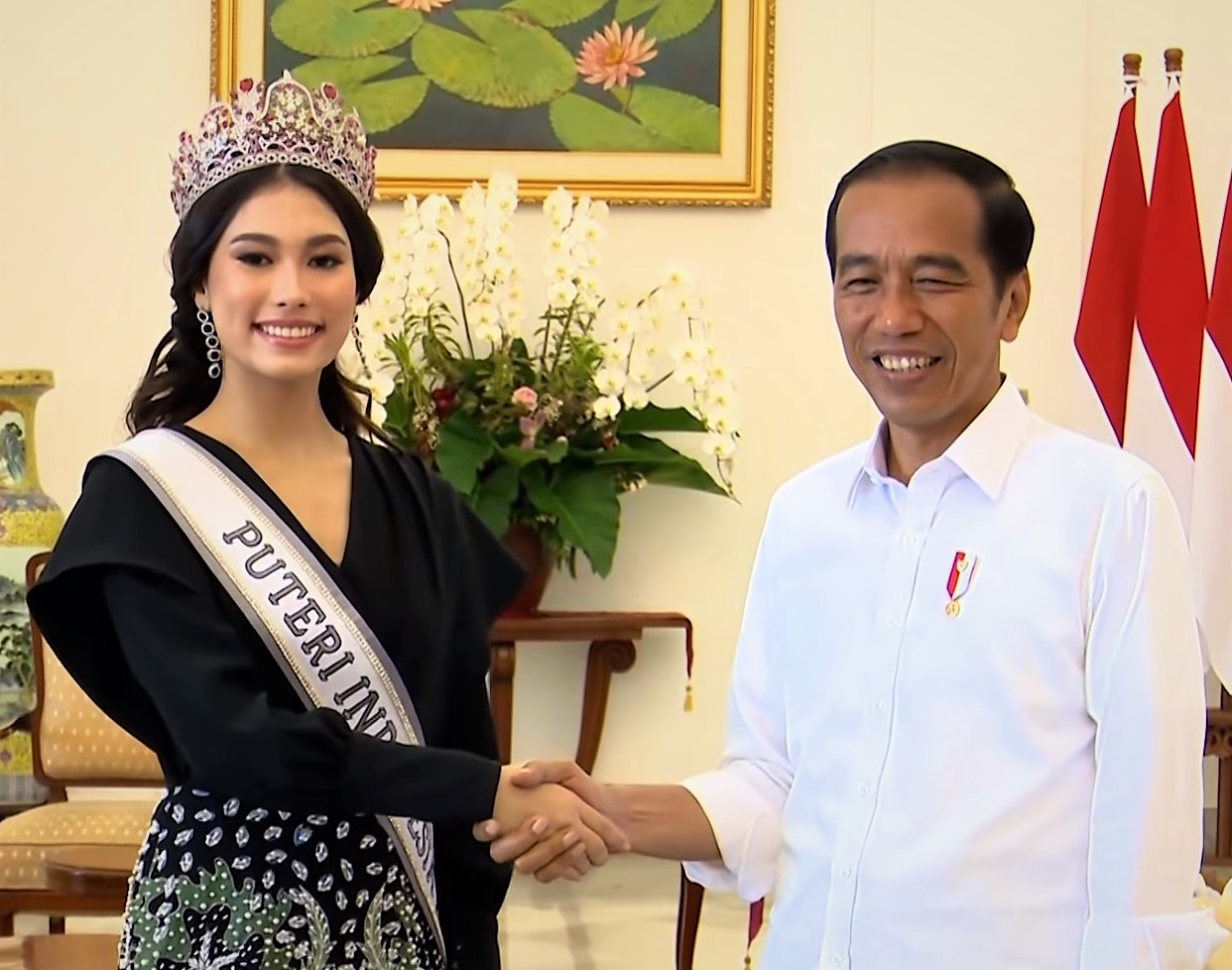 Beauty winner Frederika Alexis Cull, Puteri Indonesia 2019, meets with President Joko Widodo in Bogor Palace.